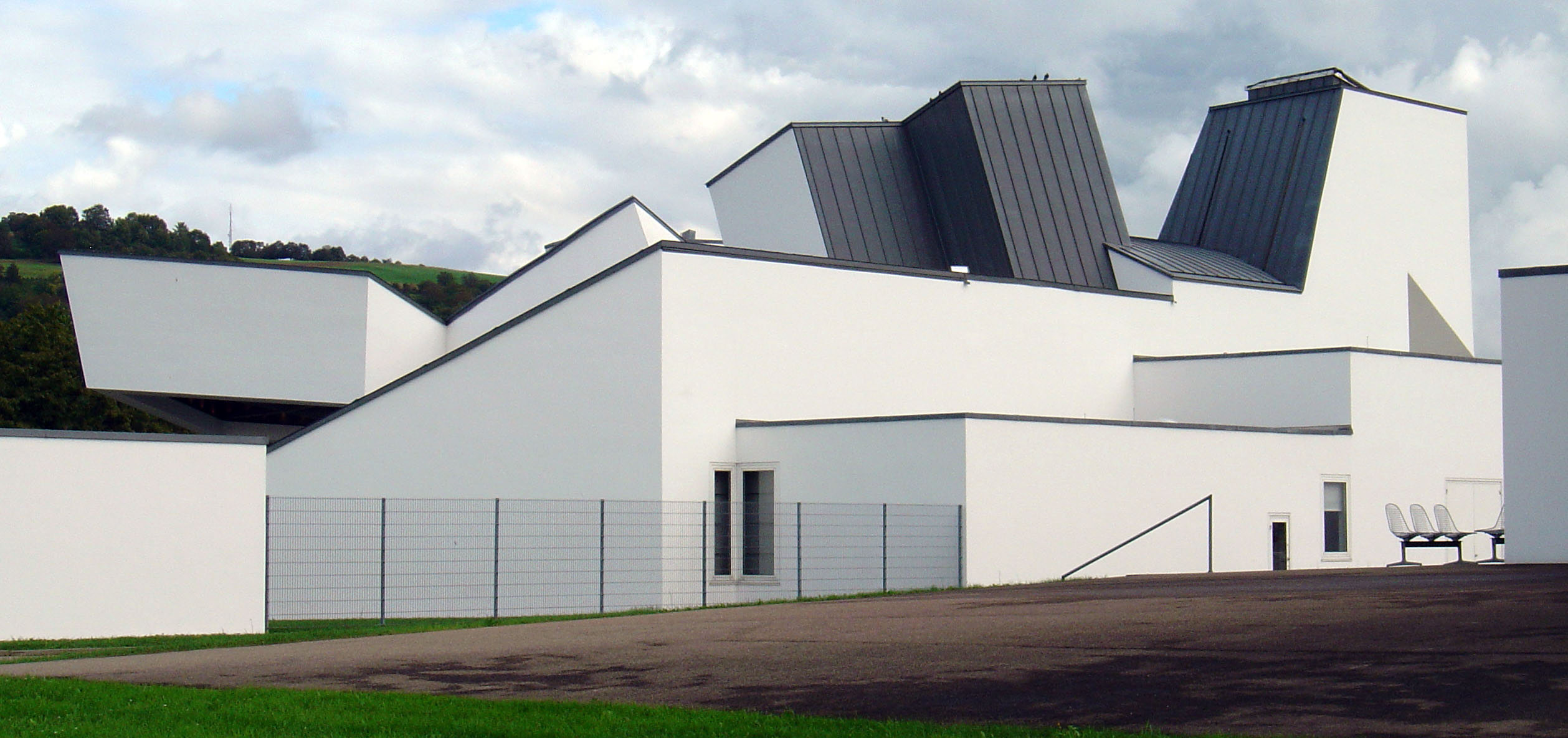 Vitra Design Museum building by Frank O. Gehry, Weil am Rhein, Germany. To the left, part of the gatehouse, and to the right, part of the factory building, both also by Gehry, is visible.